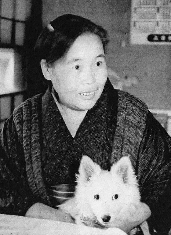 Sue Sumii